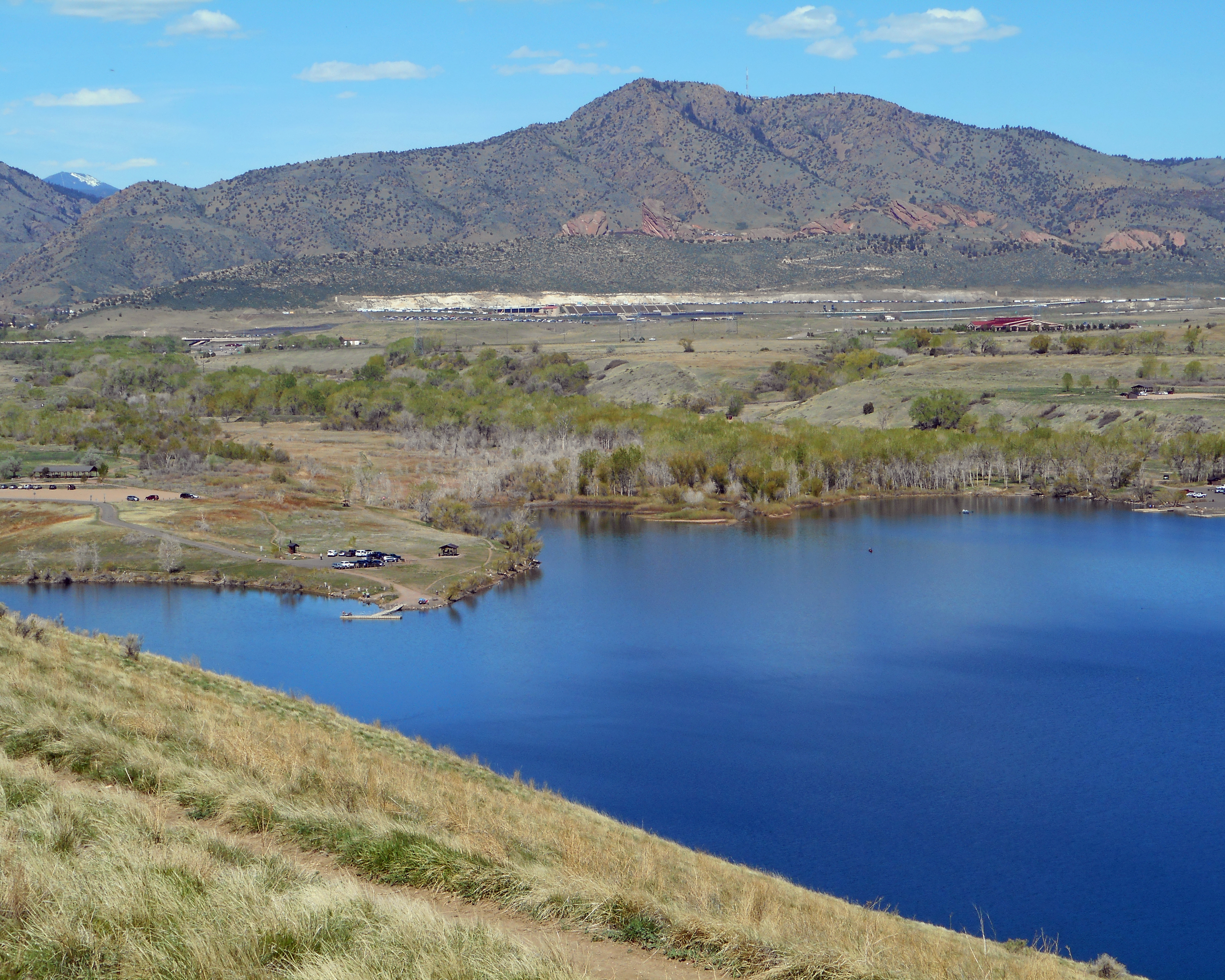 Taken from on top of the flood control dam.